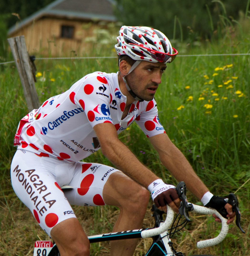 418 bollentrui christophe riblon